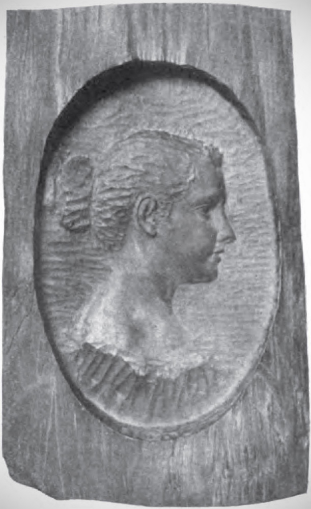 A wood carving of Josephine Bracken by her husband Jose Rizal, the national hero of the Philippines.